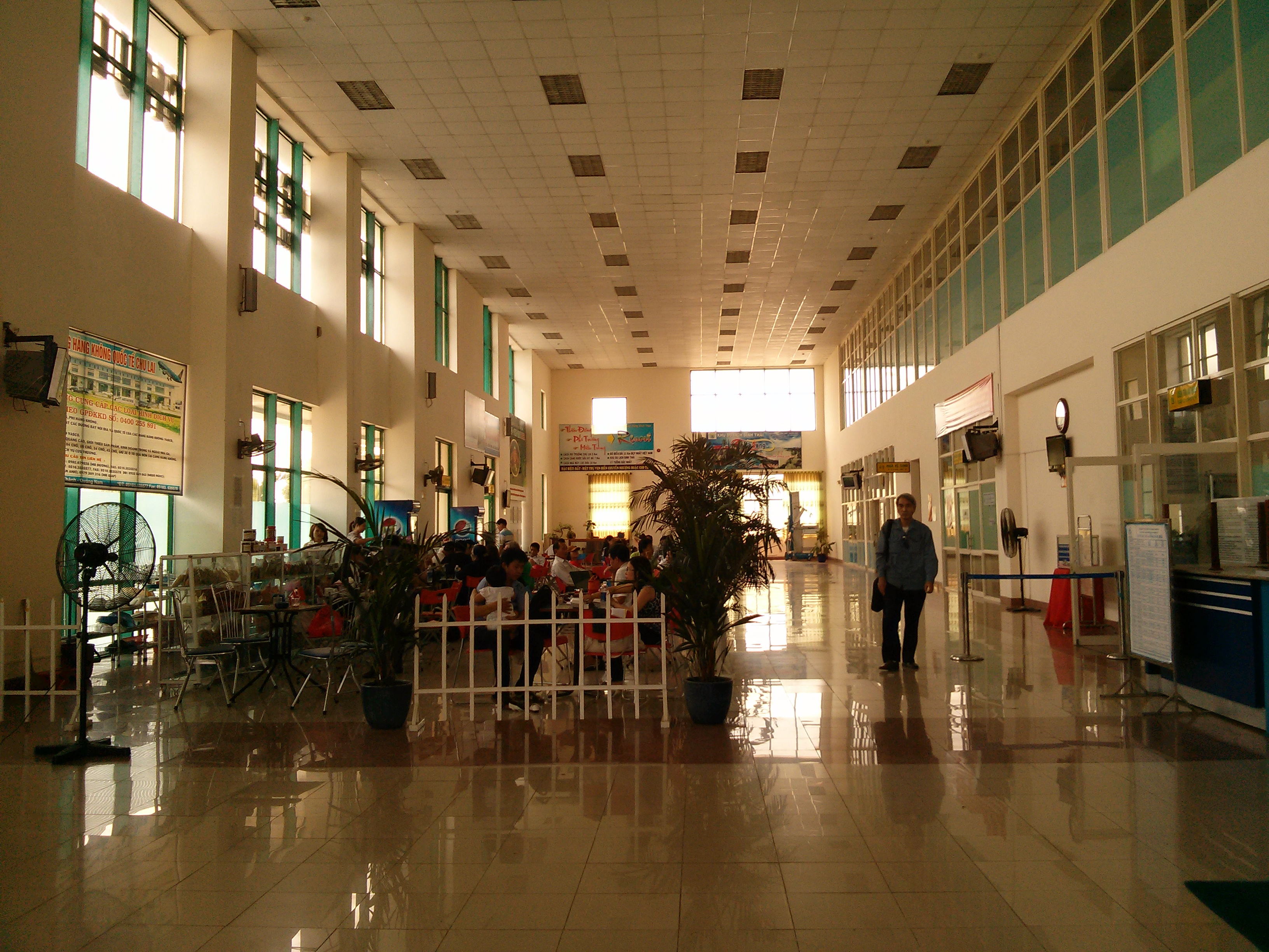 Chu Lai Airport, inside terminal - 01 May 2013